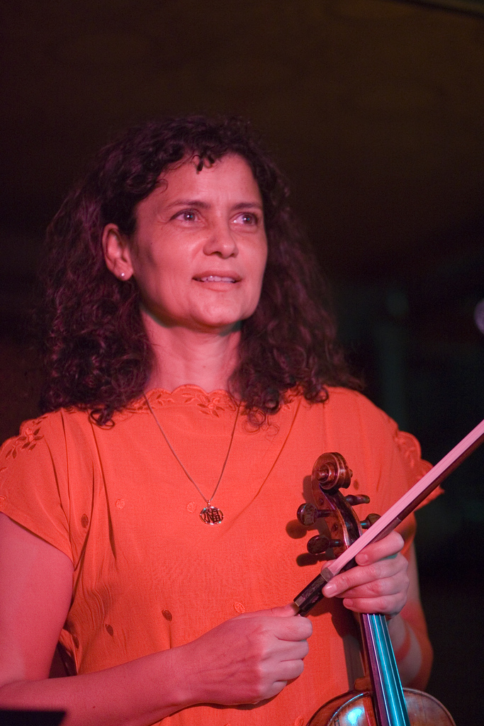 Iva Bittová performing at Union Hall, Brooklyn, New York City, 2007-09-25.